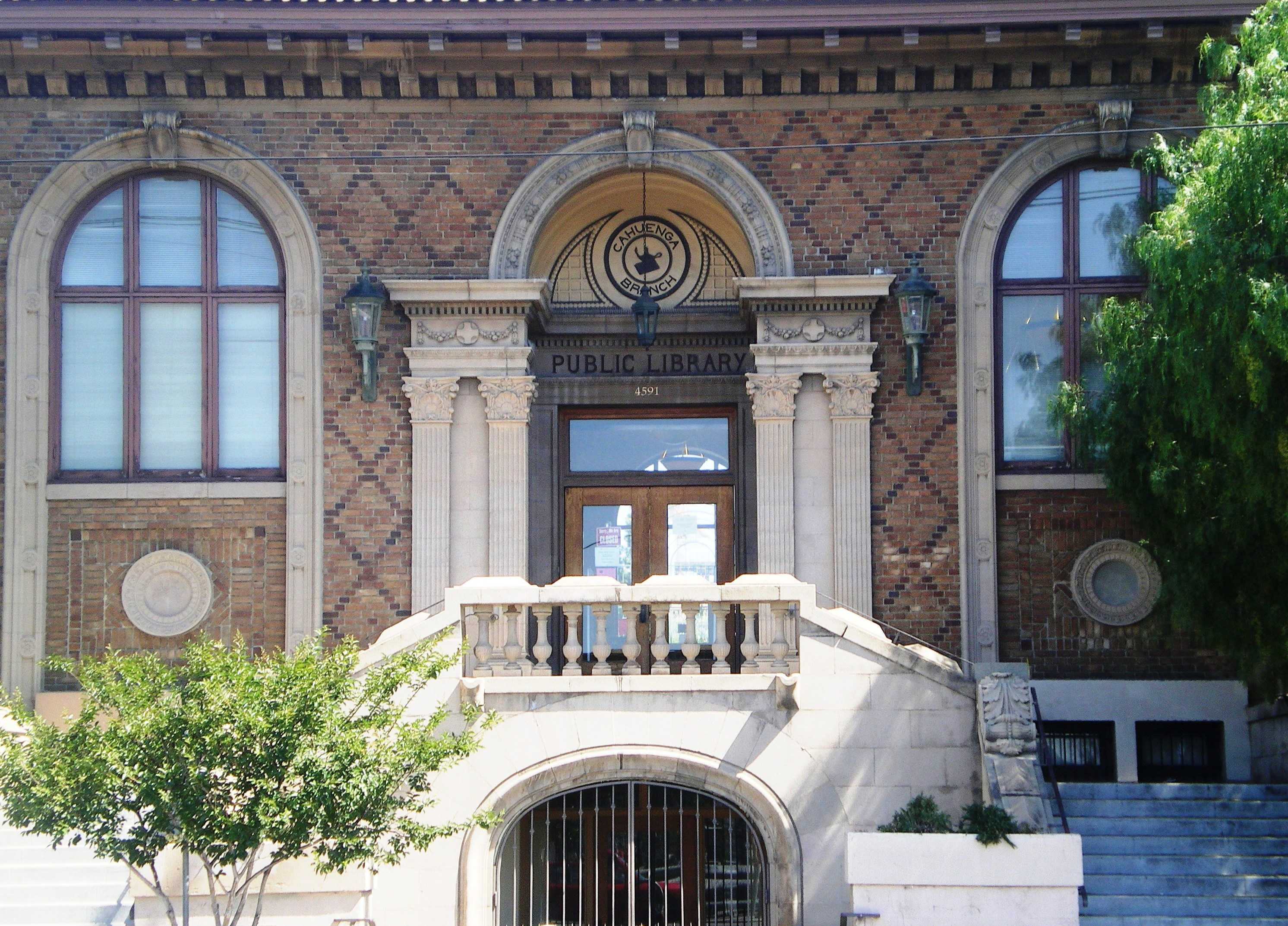 Cahuenga Branch Library (Closeup of Entrance), Los Angeles, California